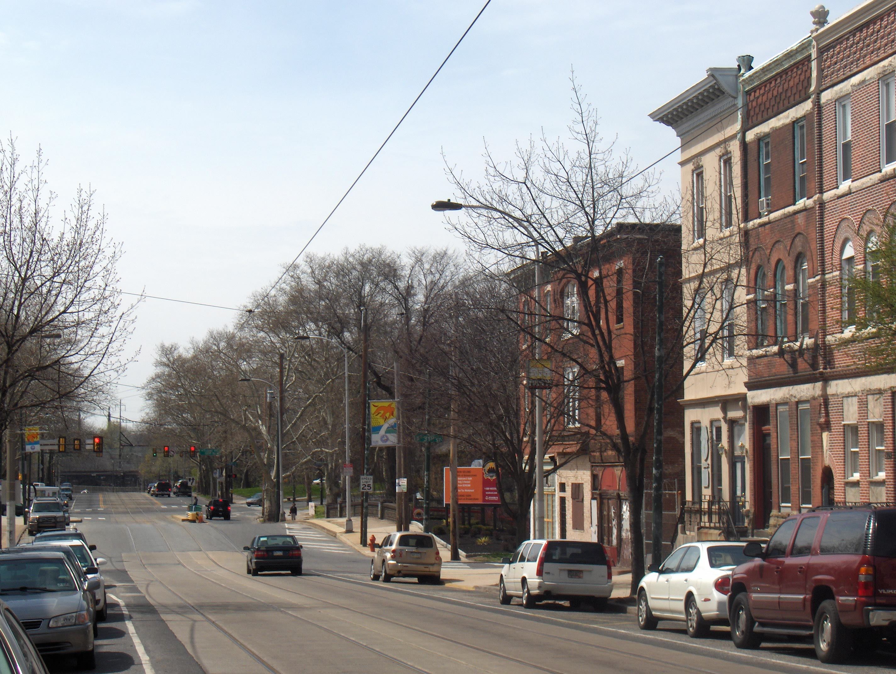 West Girard Avenue, Fairmount, Philadelphia, PA 19130, looking west, 3000 block, with CSX overpass and Fairmount Park in the background